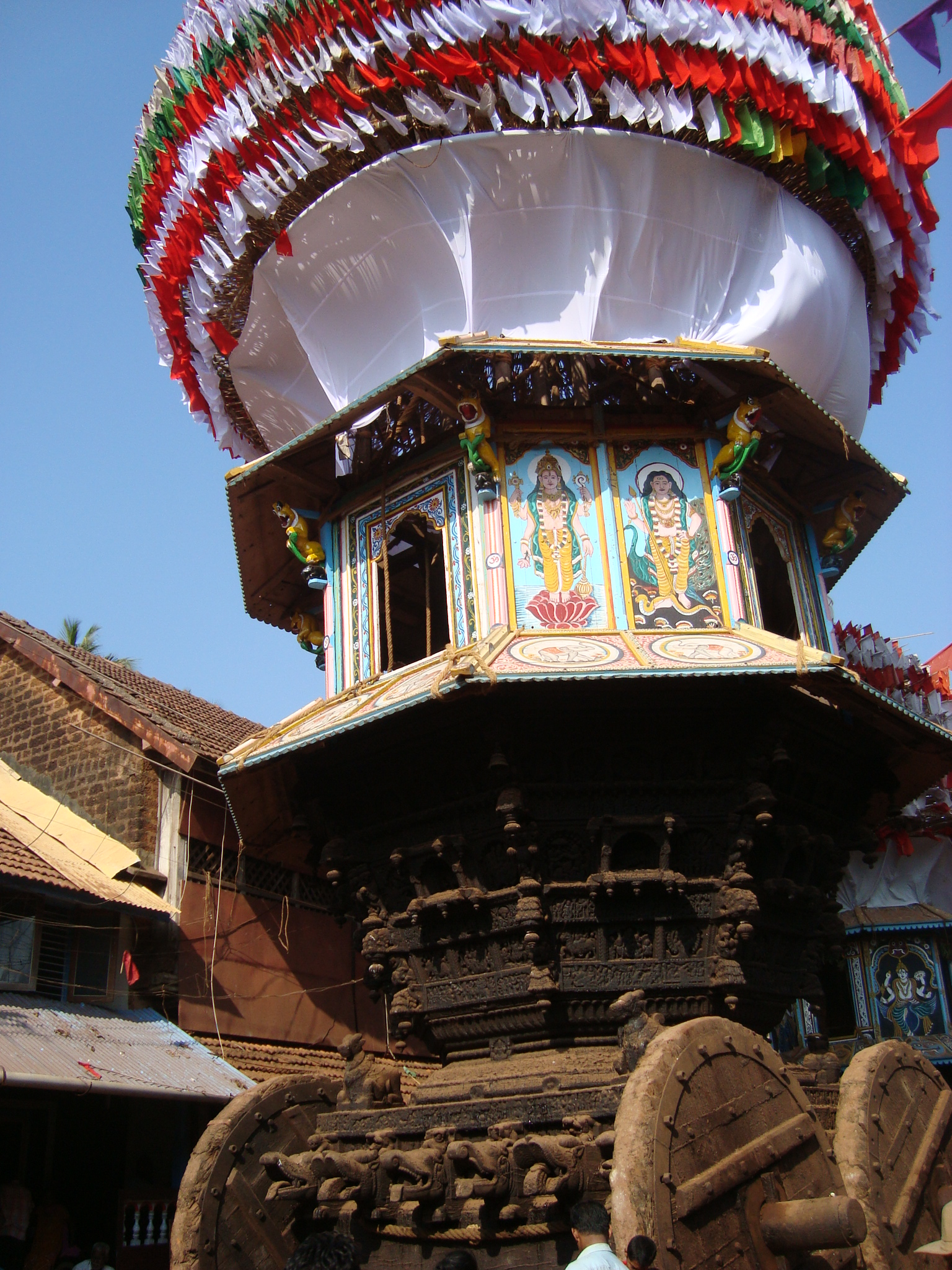 Decorated Rath at Gokarna during Sivarathri festival